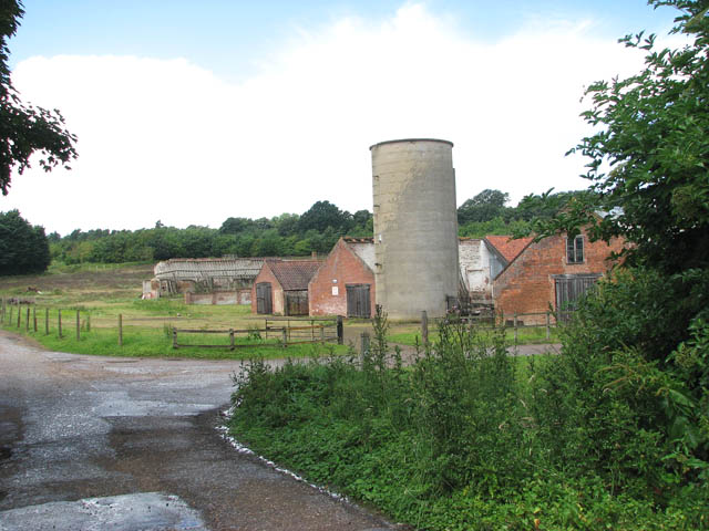 Barns by Whitlingham Hall A sign gives their name as Whitlingham Barns.